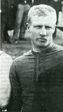 Australian rules footballer Alfred 'Topsy' Waldron (b. 1857)